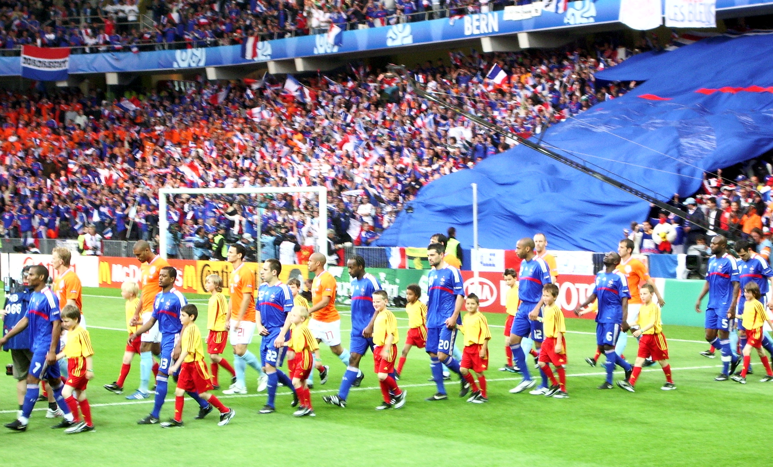 Teams of the Netherlands and France enter the stadium before the Euro2008 match Holland - France on 13.06.2008